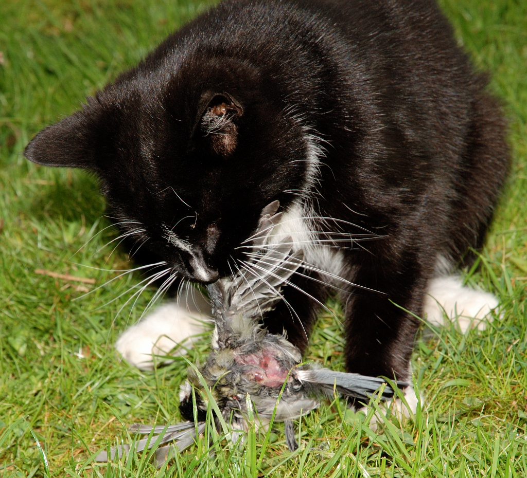 A domestic black and white cat eating bird (probably a Great Tit) on a lawn.